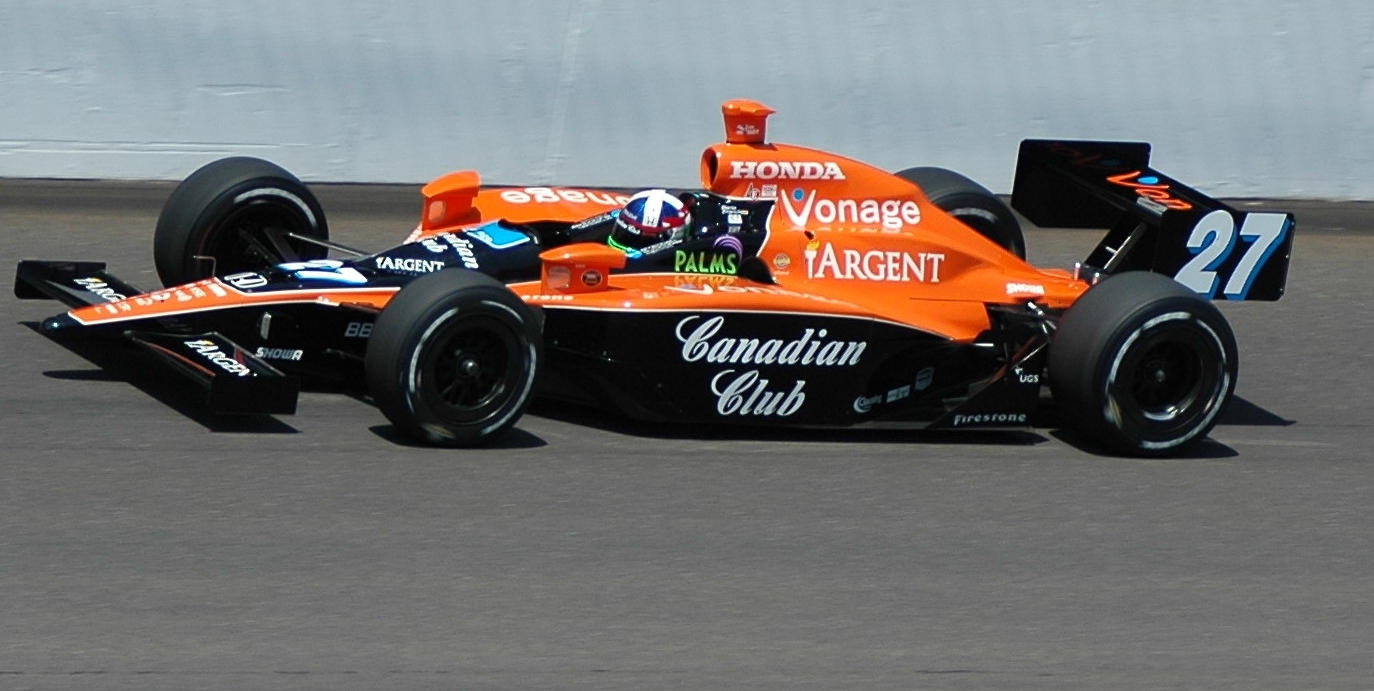 Dario Franchitti practicing for the en:2007 Indianapolis 500. He won the race. A Creative Commons/Attribution ShareAlike 2.0 image. It was taken 2007-05-20 11:45:16 by Flickr photographer Carey Akin [1].